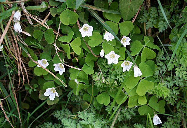 Wood-sorrel - Oxalis acetosella Growing in the hedge bank of a country lane.